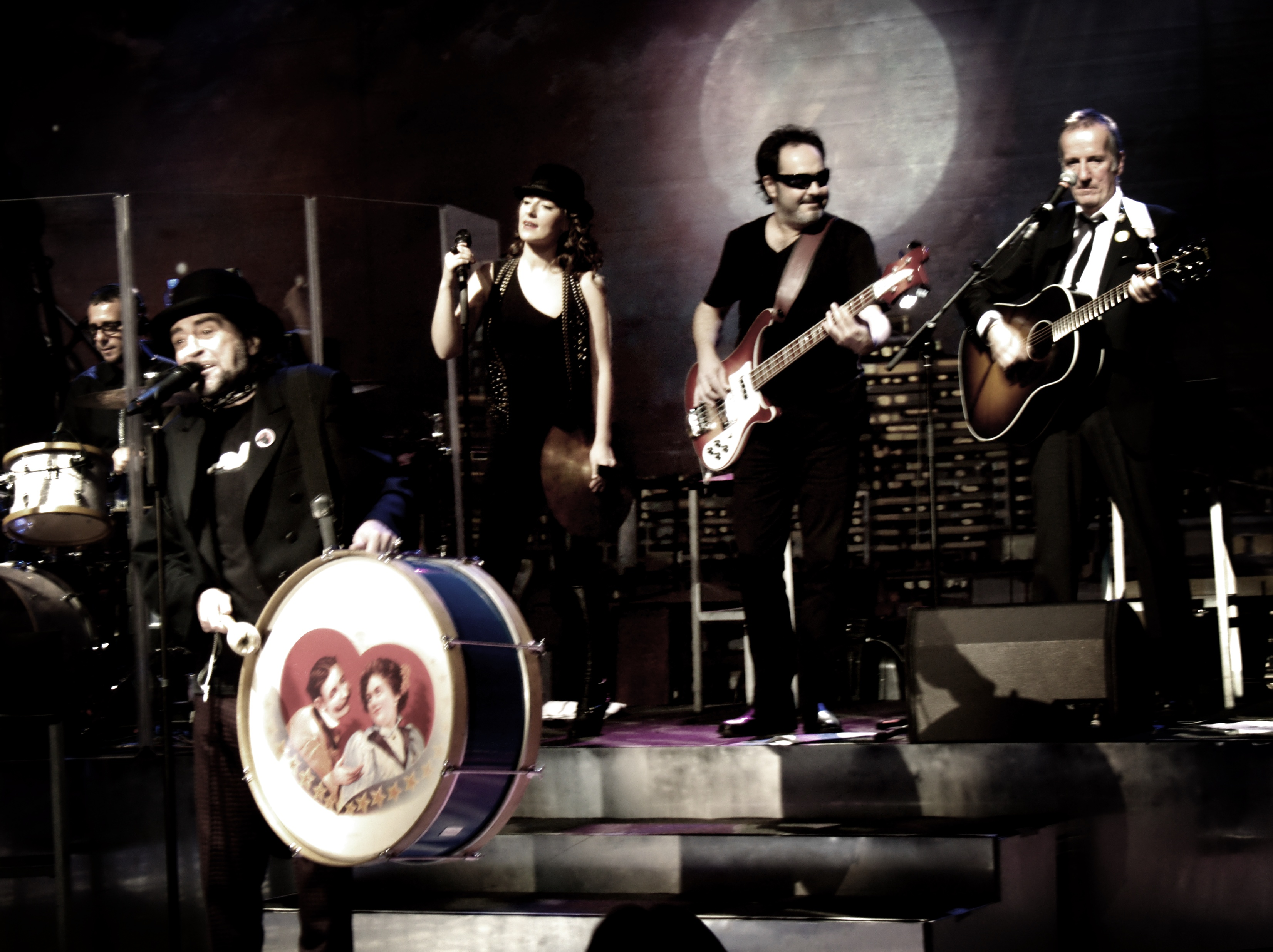 Joaquín Sabina, with his musicians, during a concert of the "Vinagre y rosas" Tour in Granada (Spain).